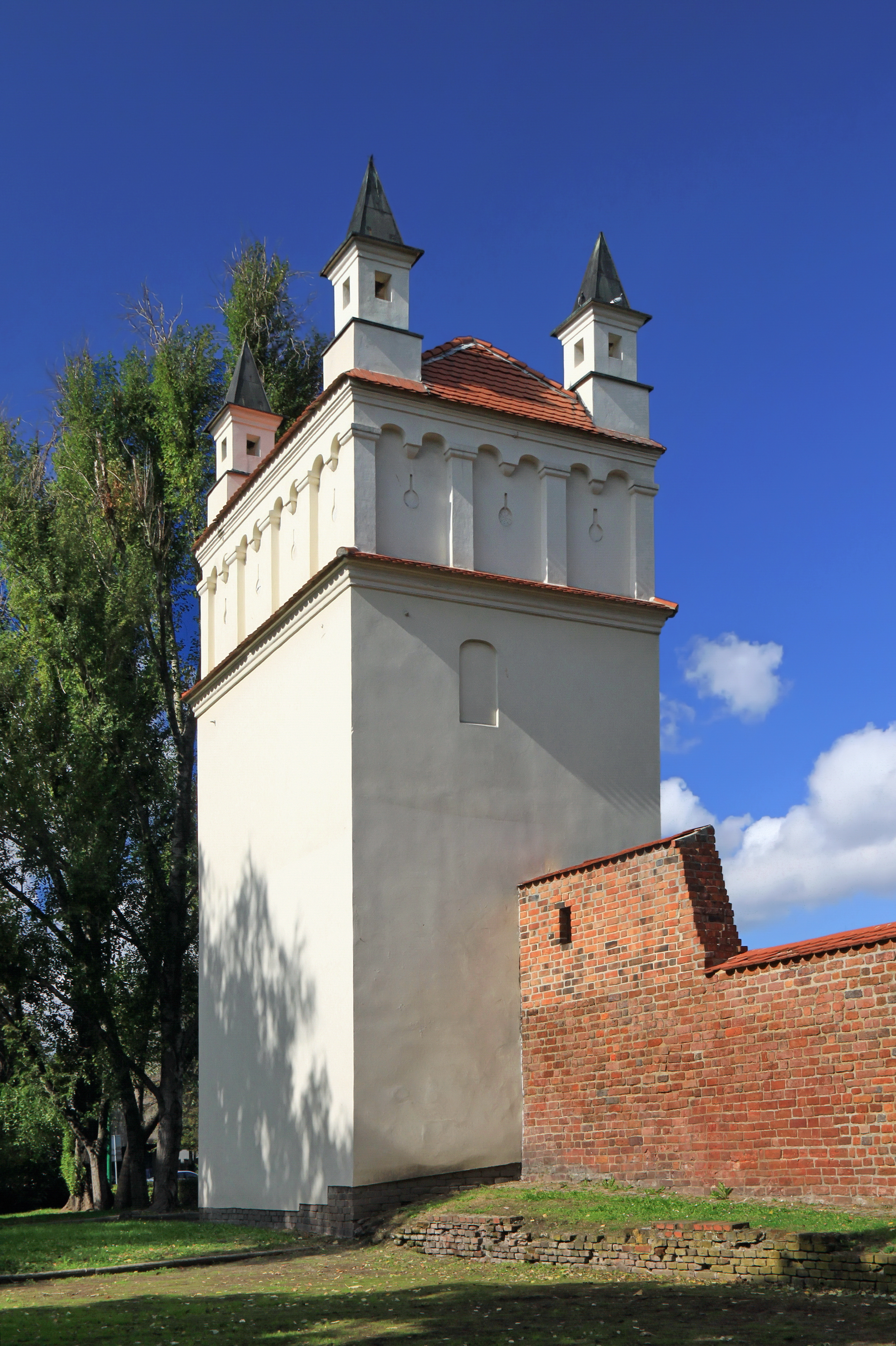 Racibórz, prison tower, build in 1574